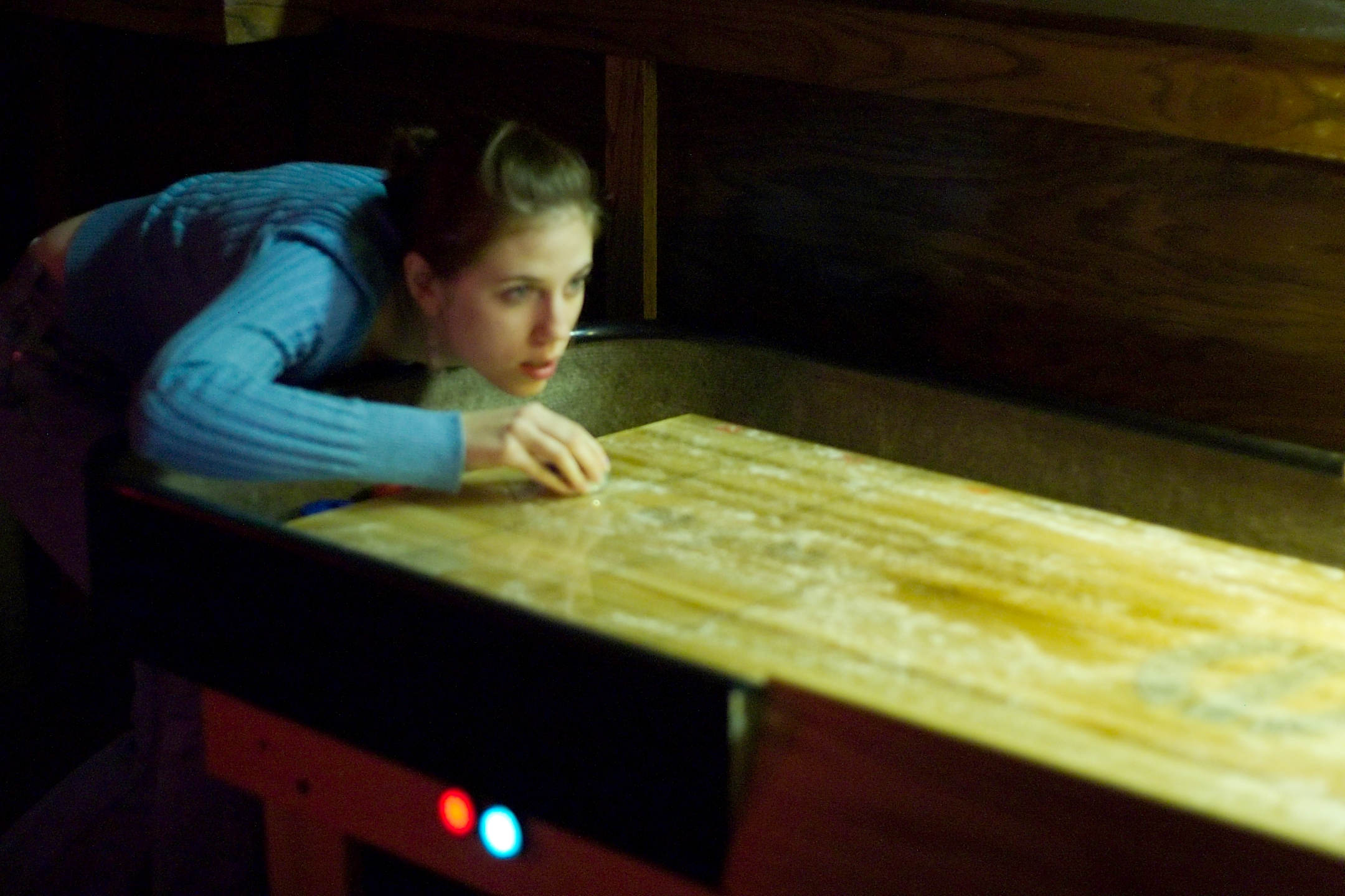 Table shuffleboard photo by Chris Wage.